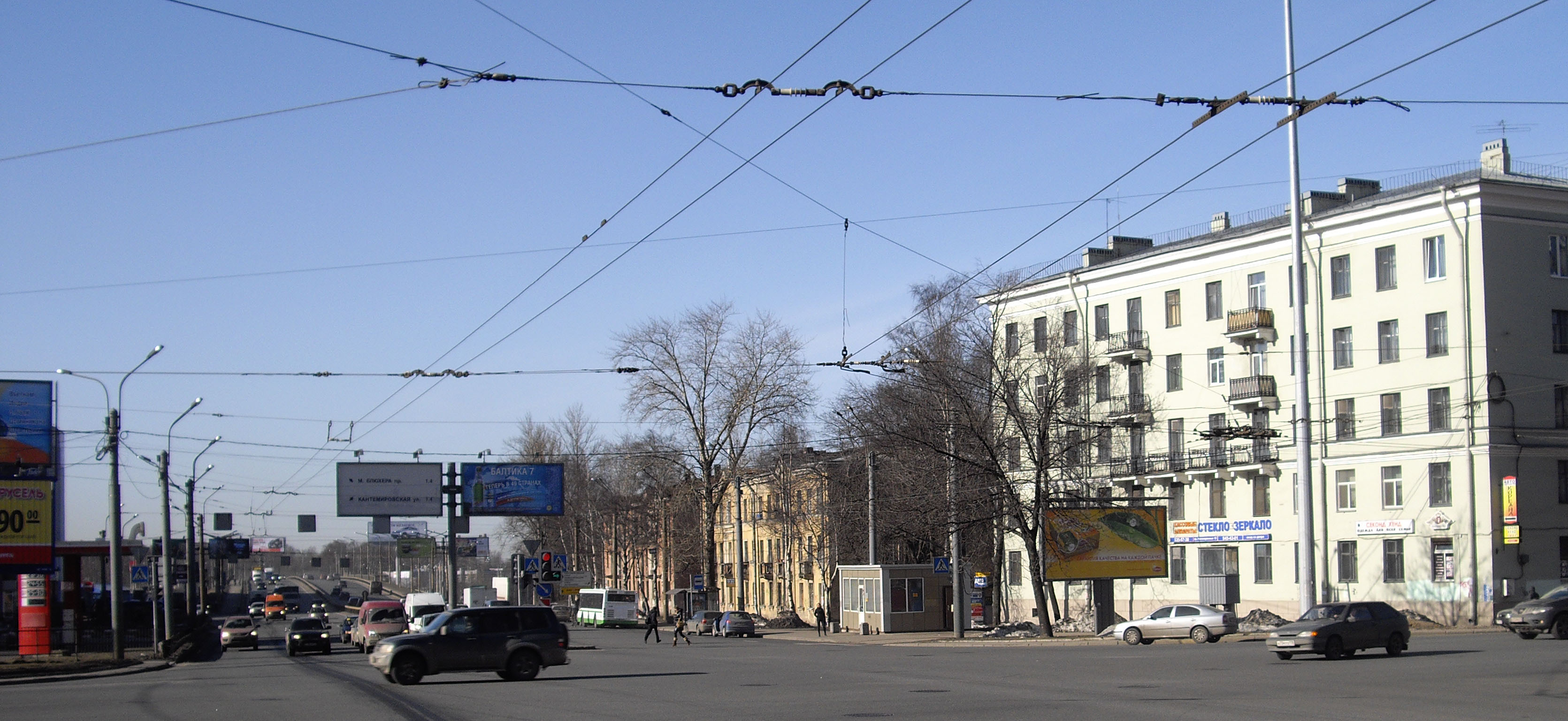 Kushelevskaya Doroga (Kushelev Road) in Saint Petersburg, Russia (view from Grazhdansky Prospekt).